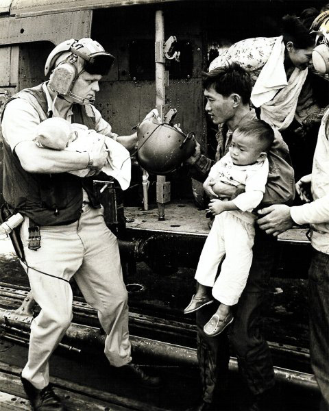 During Operation Frequent Wind, many natives of South Vietnam did everything they could to leave their country. More people were evacuated than the operation's planners anticipated. They thought they would be moving about 100 people, but when it was over they had relocated 1,373 Americans and 5,595 foreign refugees.